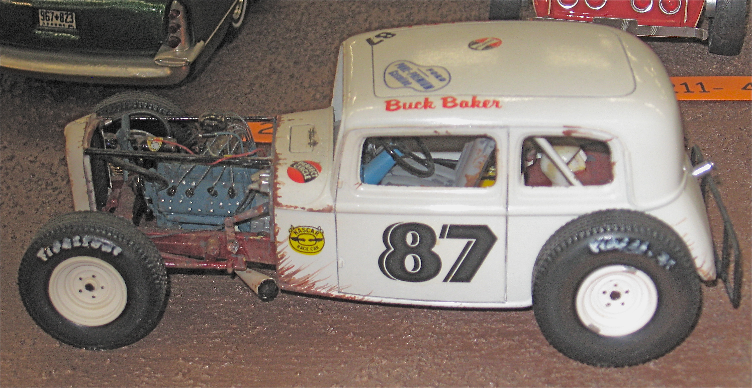 Model kit of a Ford V8 Model 18 Victoria (1932) Modified racer, driven by Buck Baker. Note late-model flathead V8. Shot at Draggins anniversary car show